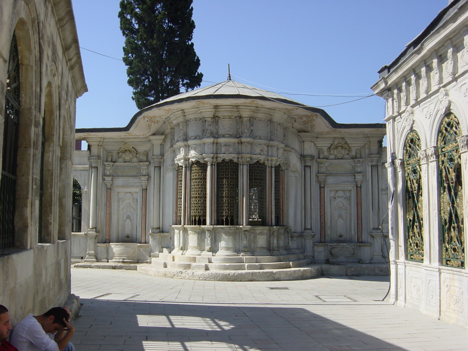 Istanbul - A kiosk in the ancient ottoman cemetery in Eyüp. Picture by: Giovanni Dall'Orto, May 30 2006.